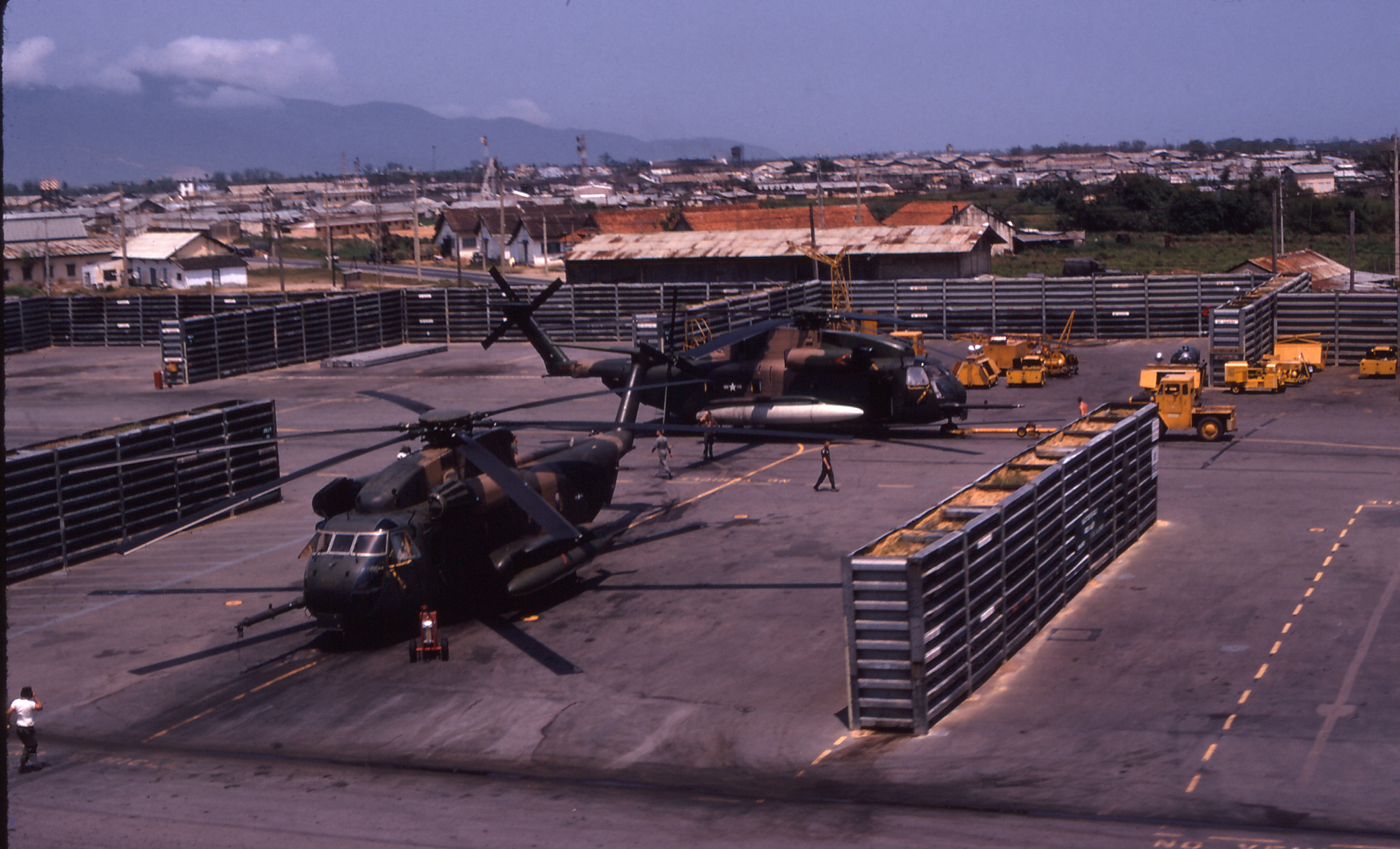 This photo shows the helicopter revetments protecting the HH-53 Super Jolly Green Giant helicopters used by the 37th ARRSq